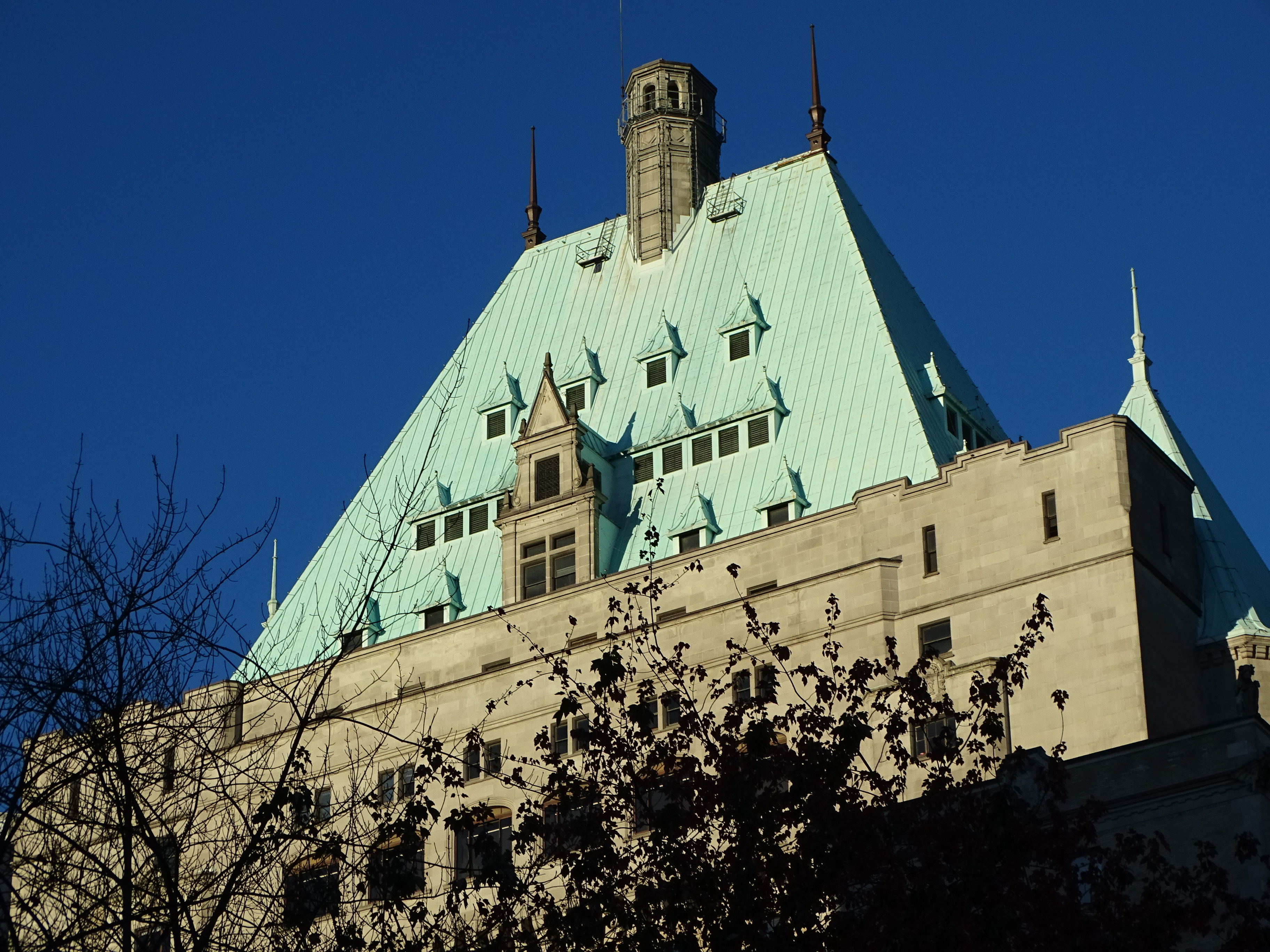 Facade of Hotel Vancouver - Vancouver - BC - Canada